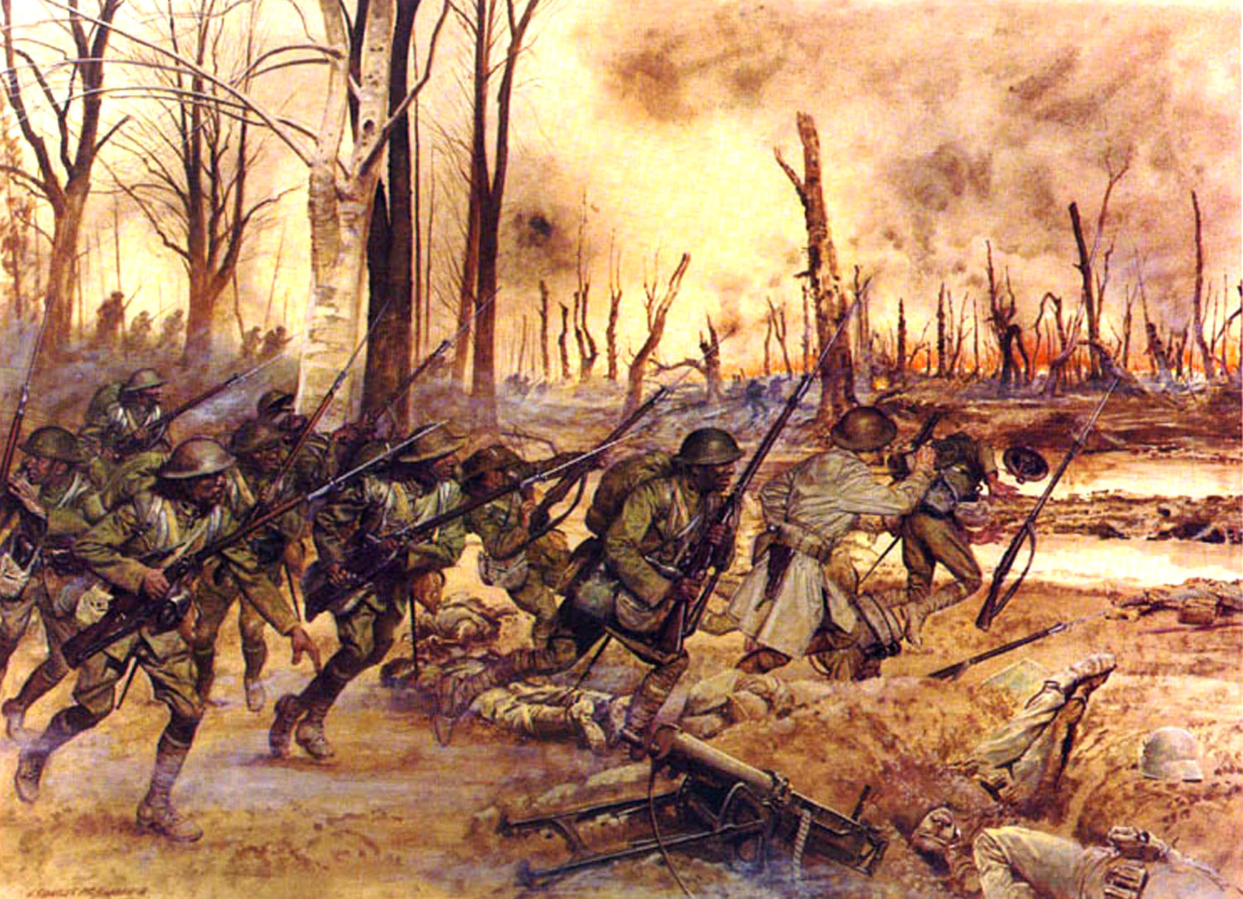 Harlem Hell Fighters in Séchault, France on September 29 1918 during the Meuse-Argonne Offensive